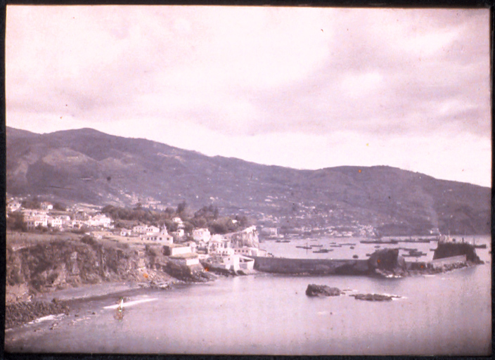 Colour Photograph (Autochrome) of Funchal Bay, Madeira, by Sarah Angelina Acland, c.1910